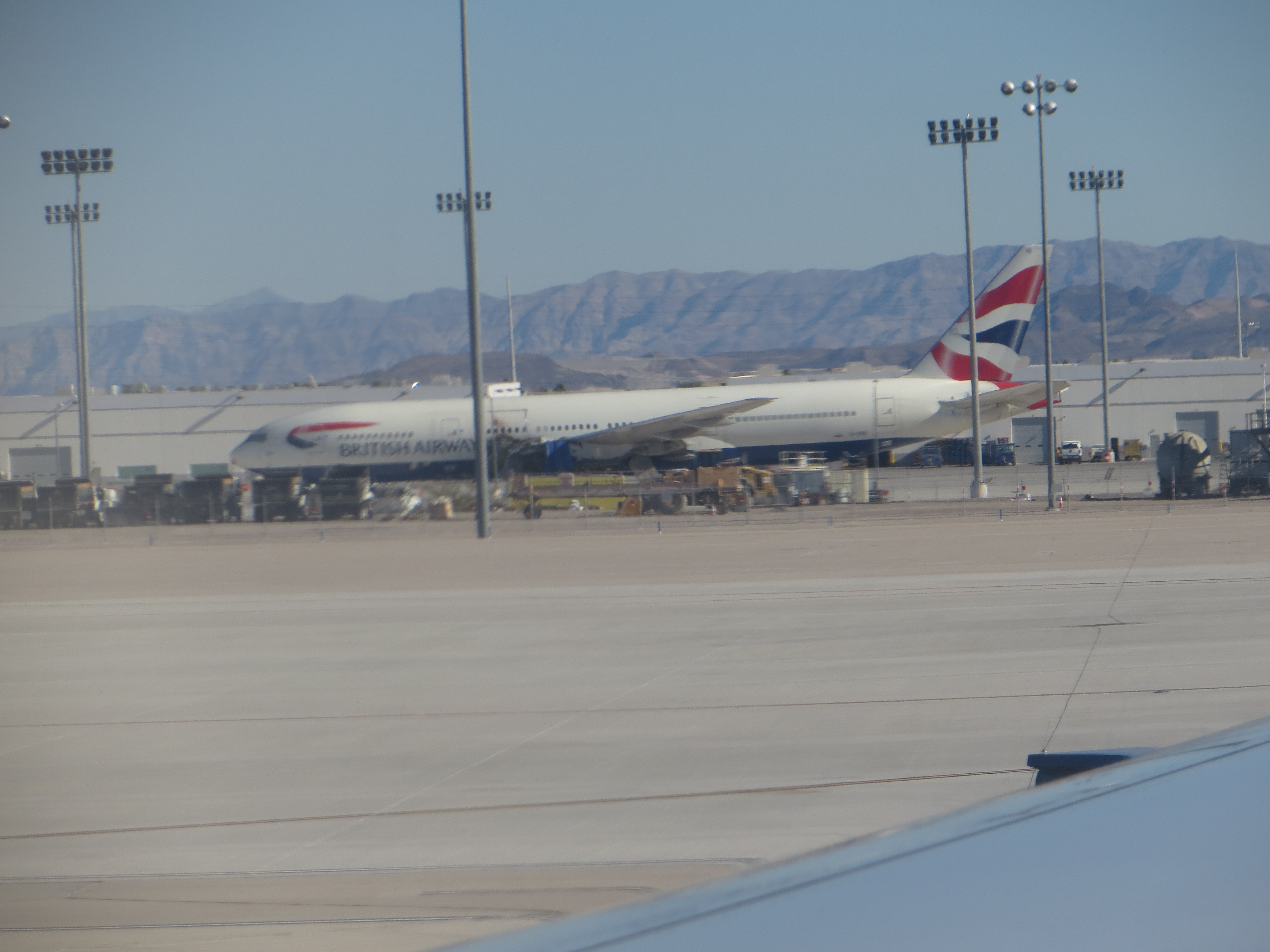 G-VIIO, involved in the British Airways Flight 2276 incident, at McCarran Airport in Las Vegas awaiting repairs.